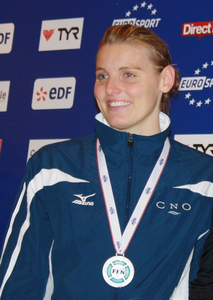 Alexandra Putra aux Championnats de France en petit bassin 2011